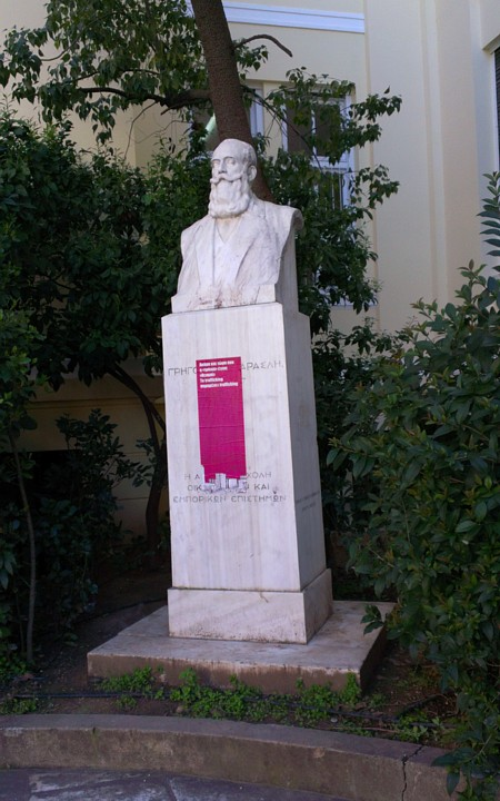 maraslis